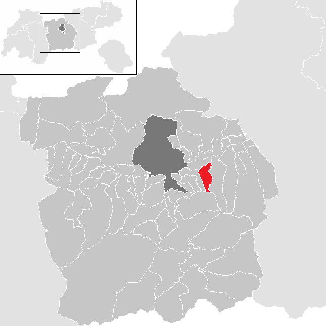 District Innsbruck Land